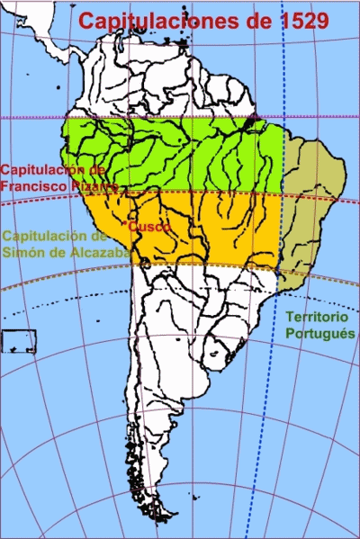 Mapa de las capitulaciones de Toledo 1529 de la reina española para Francisco Pizarro y Simón de Alcazaba. Parece que el papa no dijo nada y no tenía ganas para controlar lo que pasó porque en México ya fueron ocupados los aztecas con sus ritos de corazón para el sol...